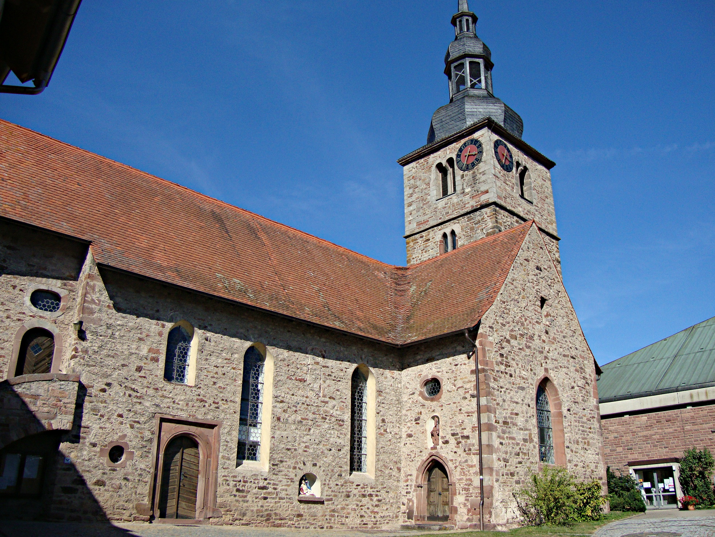 Diebach Catholic parish church St Georg, church castle, building formed like a crossThis is a photograph of an architectural monument.